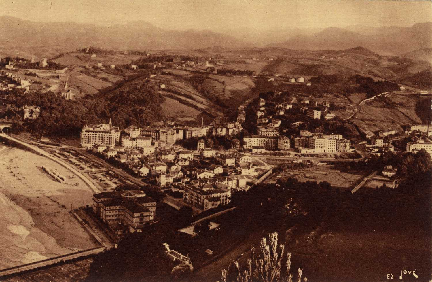 Ondarreta beach and prison in Donostia-San Sebastián, 1920s